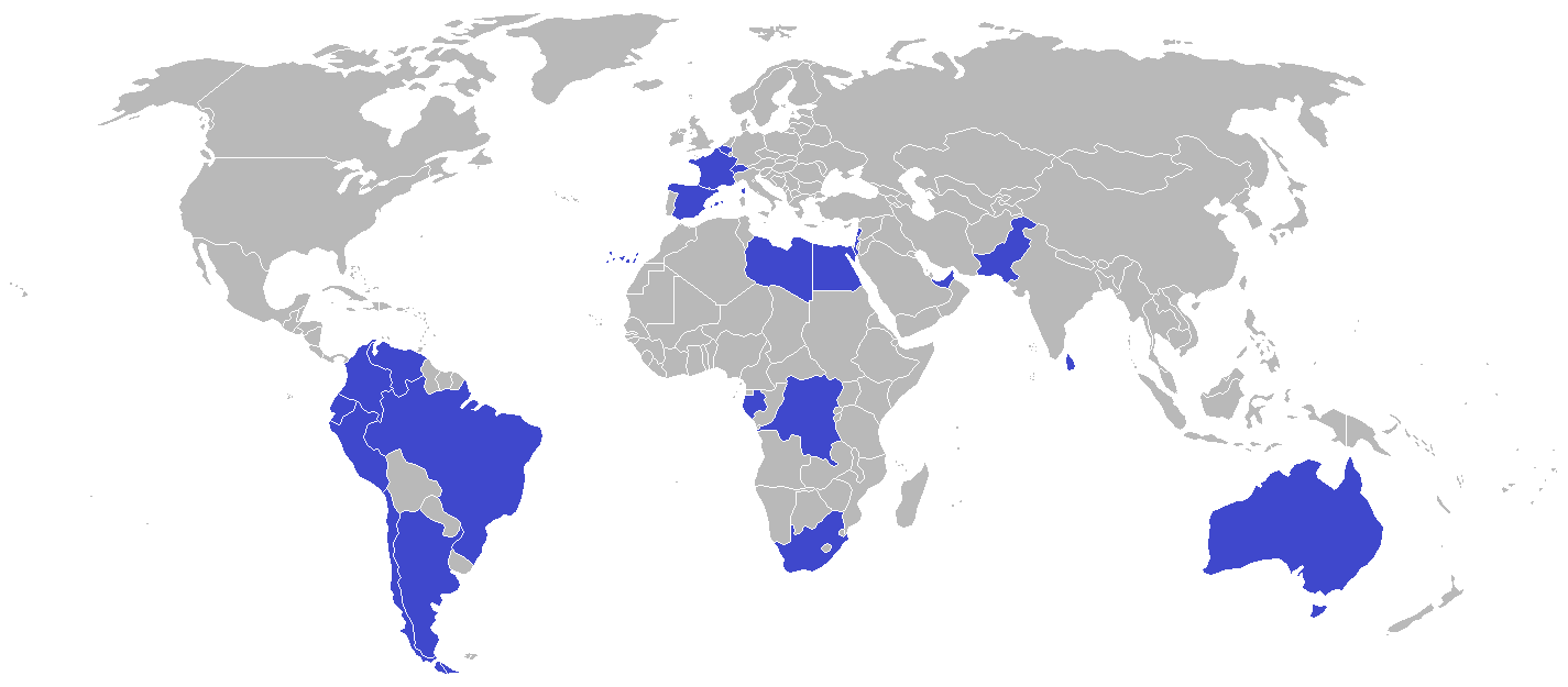 Users of Mirage III derived fighters, past and present. Includes Mirage 5, Mirage 50, Cheetah, and Kfir types.